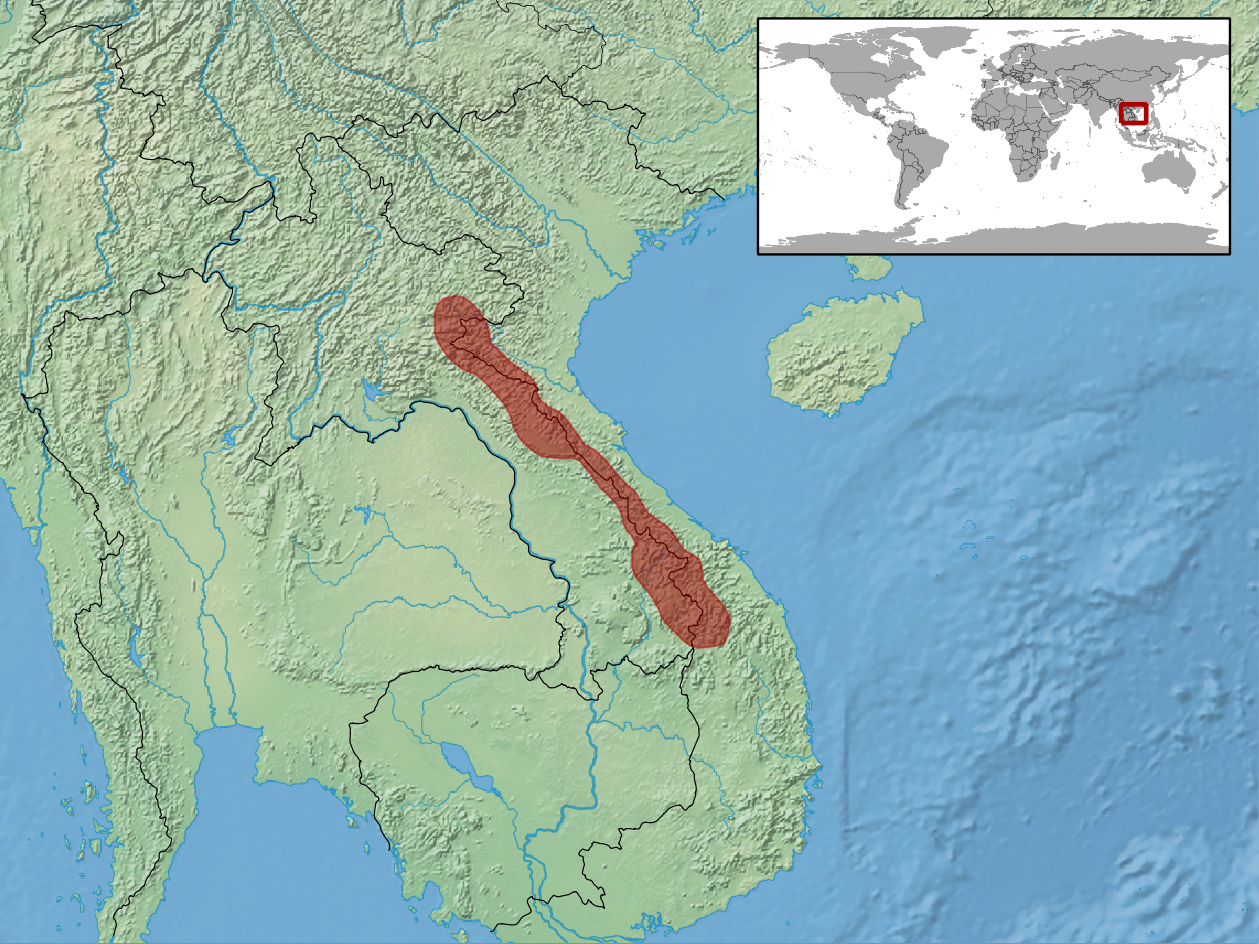 geographic distribution of Protobothrops sieversorum (Native: Lao People's Democratic Republic; Viet Nam)